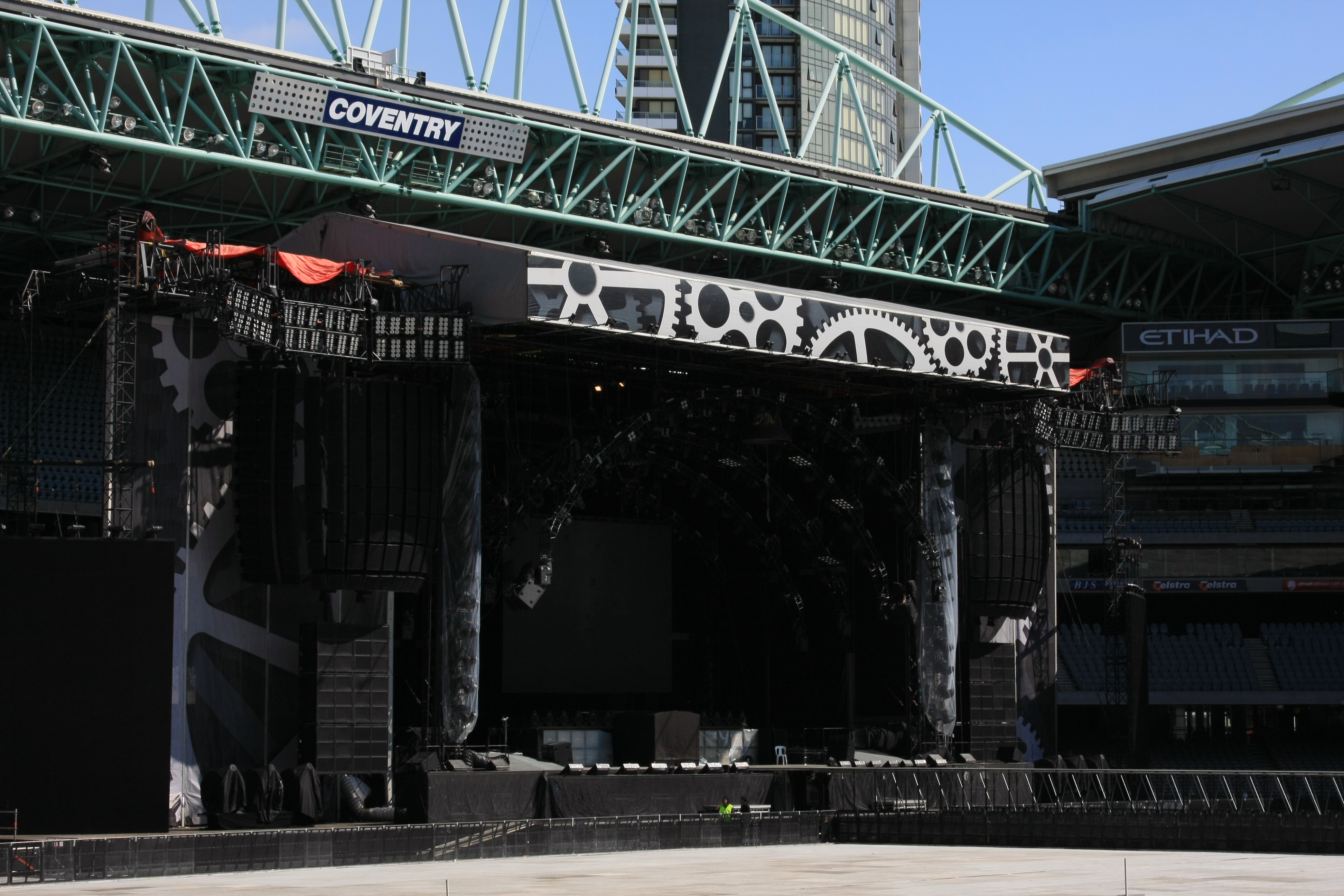 ACDC stage Etihad Stadium Melbourne. Day before 3rd concert 14th feb